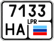 License plate in Lugansk People's Republic 2A